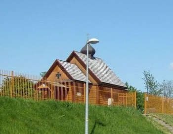 Orthodox church in Zgorzelec (May 2008)